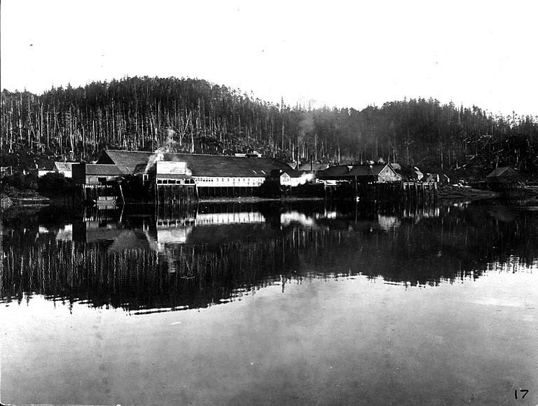 From John Cobb field notebook: Hunter Bay cannery of the N.W. Fish Co., Hunter Bay, Prince of Wales Island. Sept. 6, 1910 Subjects (LCTGM): Canneries--Alaska--Hunter Bay Subjects (LCSH): Northwestern Fisheries Company; Salmon canning industry--Alaska--Hunter Bay; Salmon fisheries--Alaska--Hunter Bay; Hunter Bay (Alaska)